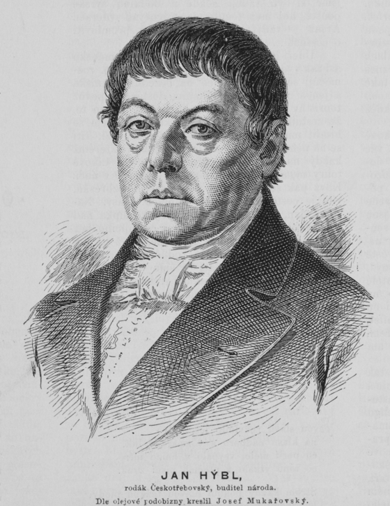 Portrait of Jan Hýbl (1786 - 1834), Czech poet, writer and editor from the period of national revival.